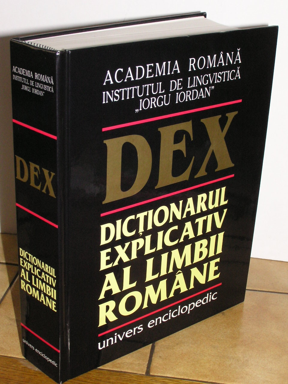 DEX is the most comprehensive and explanatory dictionary of the romanian language.